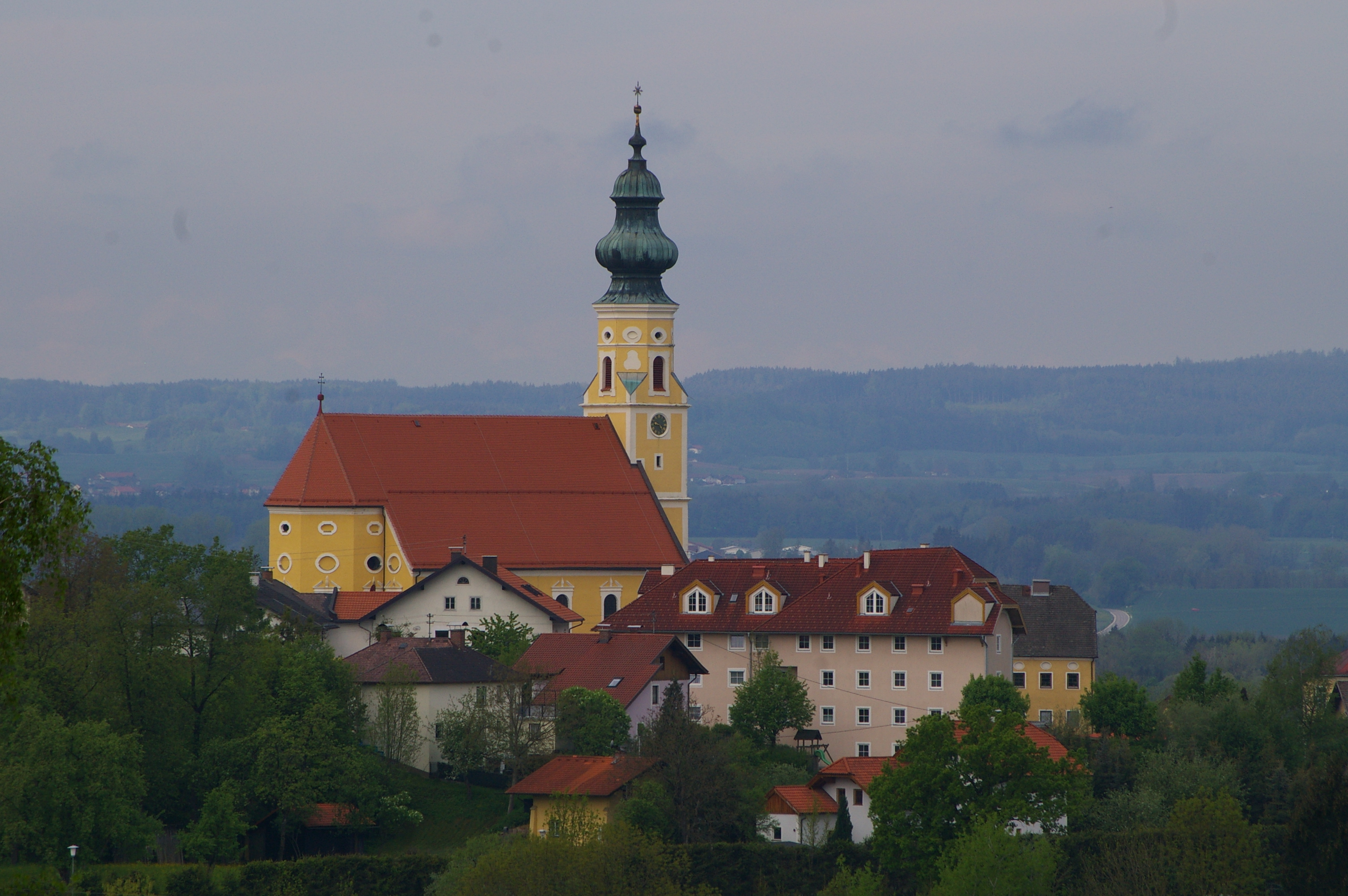 parish church Ostermiething